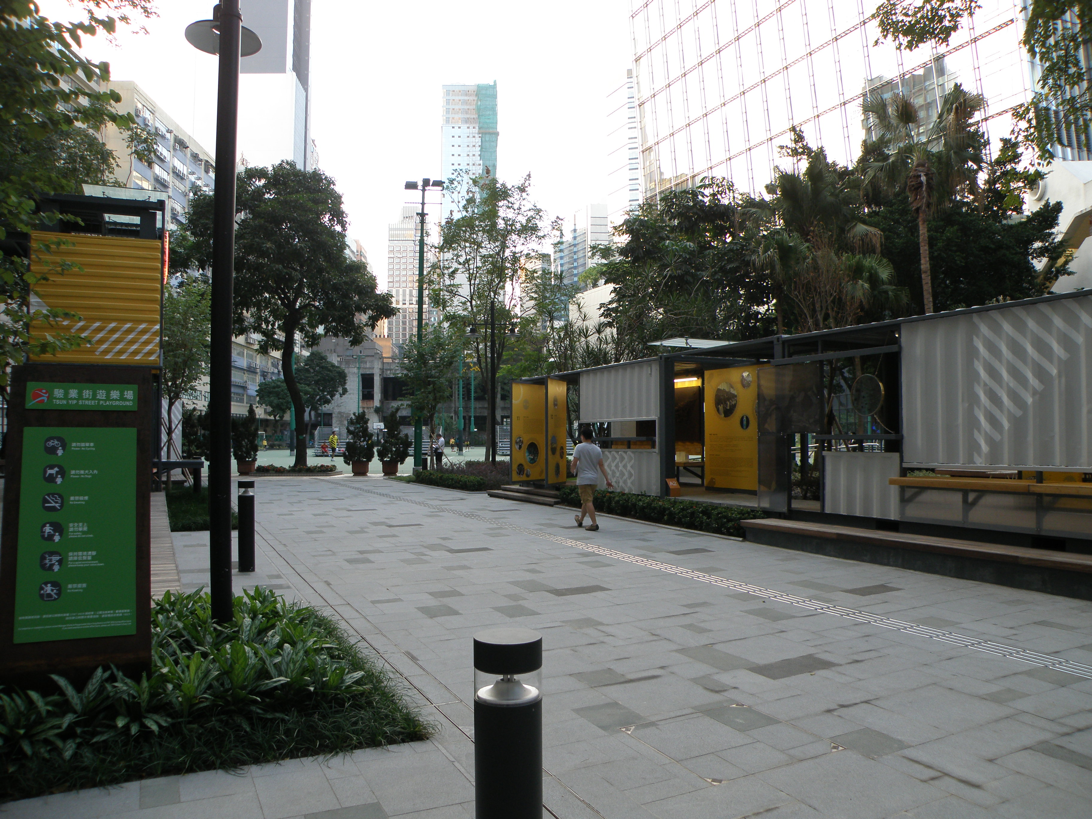 Tsun Yip Street Playground in Kwun Tong, Hong Kong.